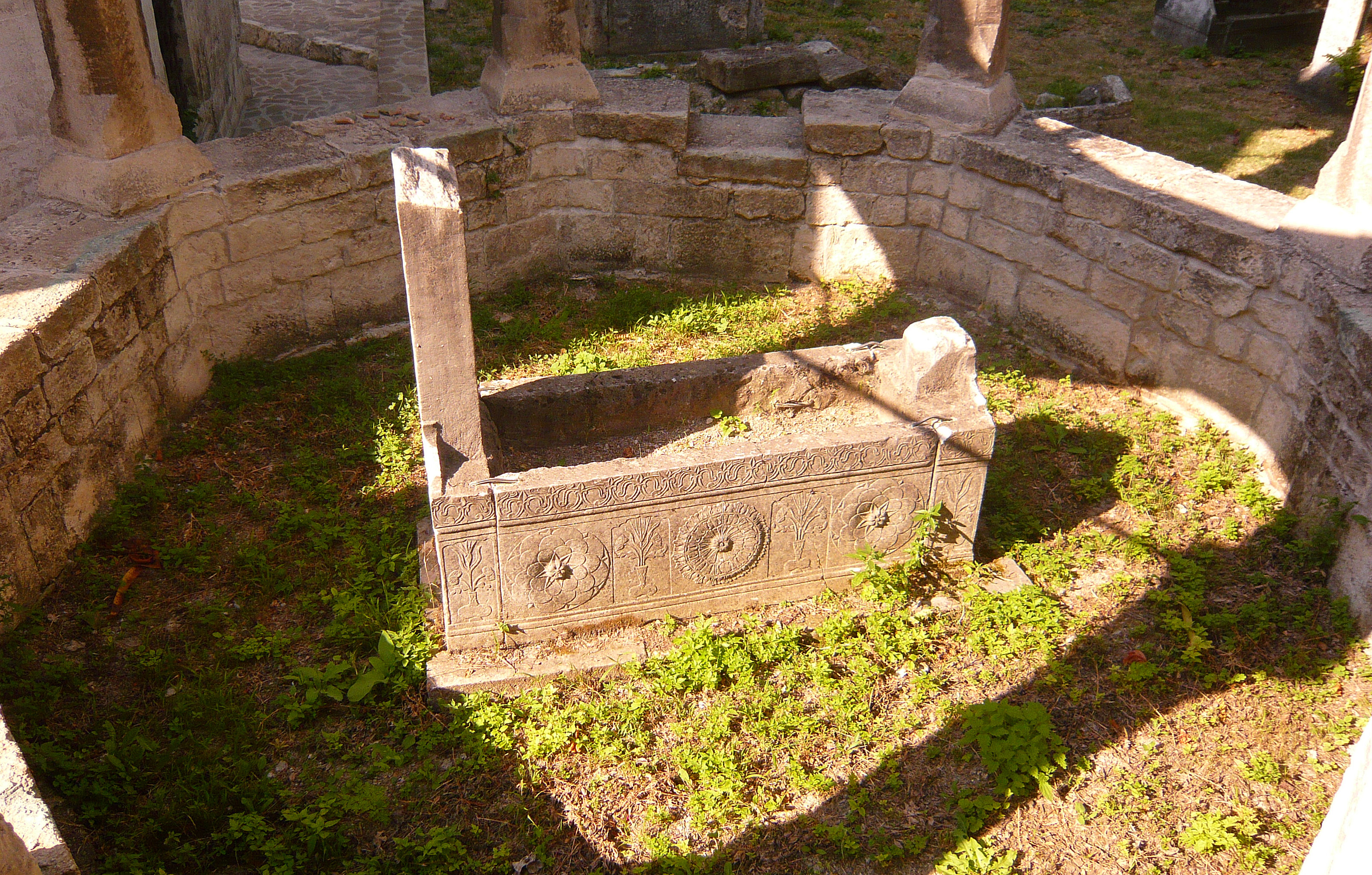 Khans cemetery in Bakhchisaray Palace